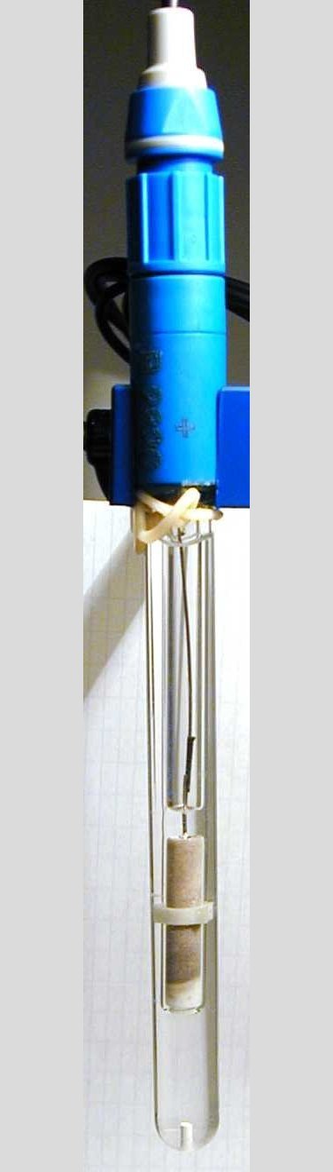 Wide version, based on PD by User:Lcolson.